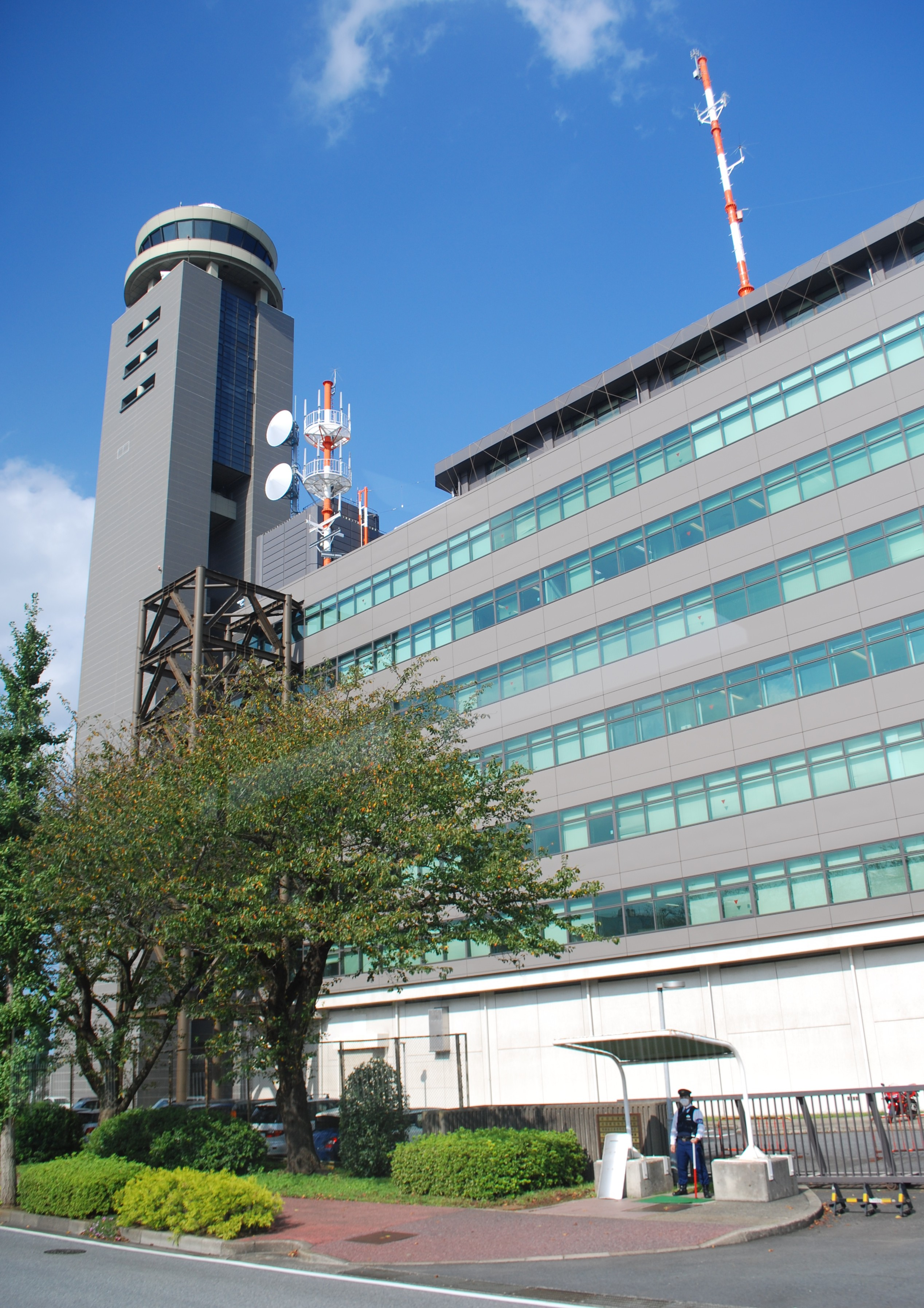 Contorol tower in Narita airport,Narita-city,Japan